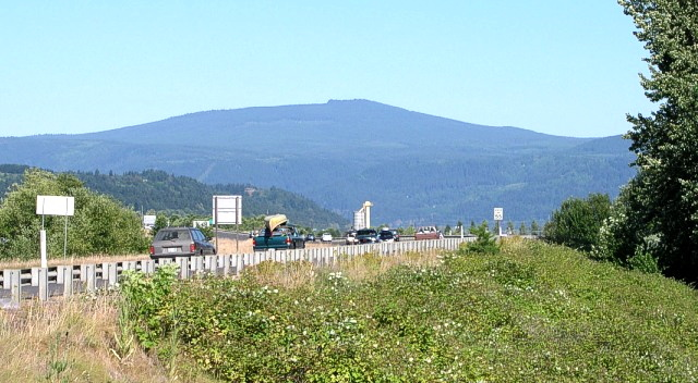 Larch Mountain in Oregon as seen from Washougal, Wash.